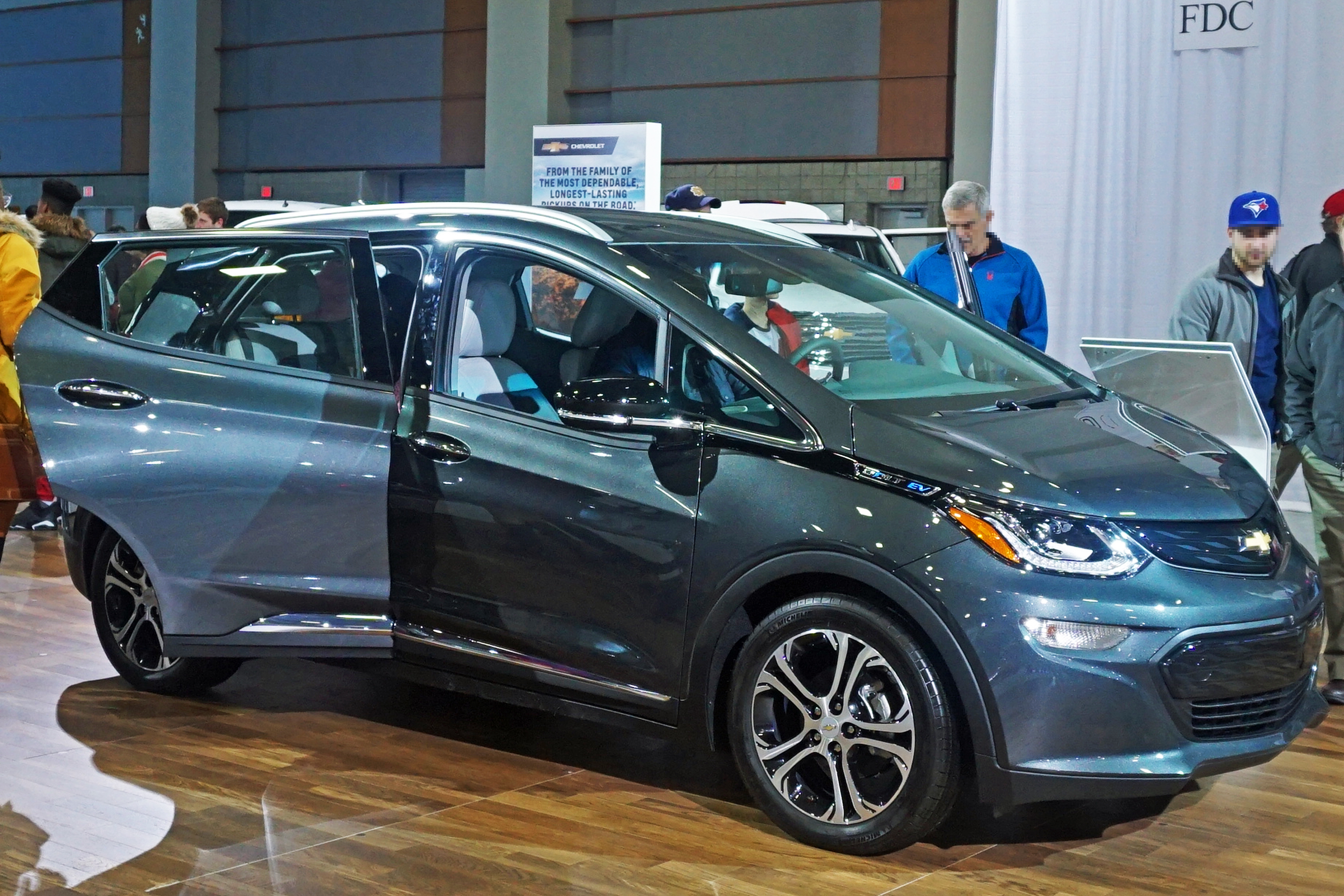 2017 Chevrolet Bolt EV exhibited at the 2017 Washington Auto Show, DC, US.